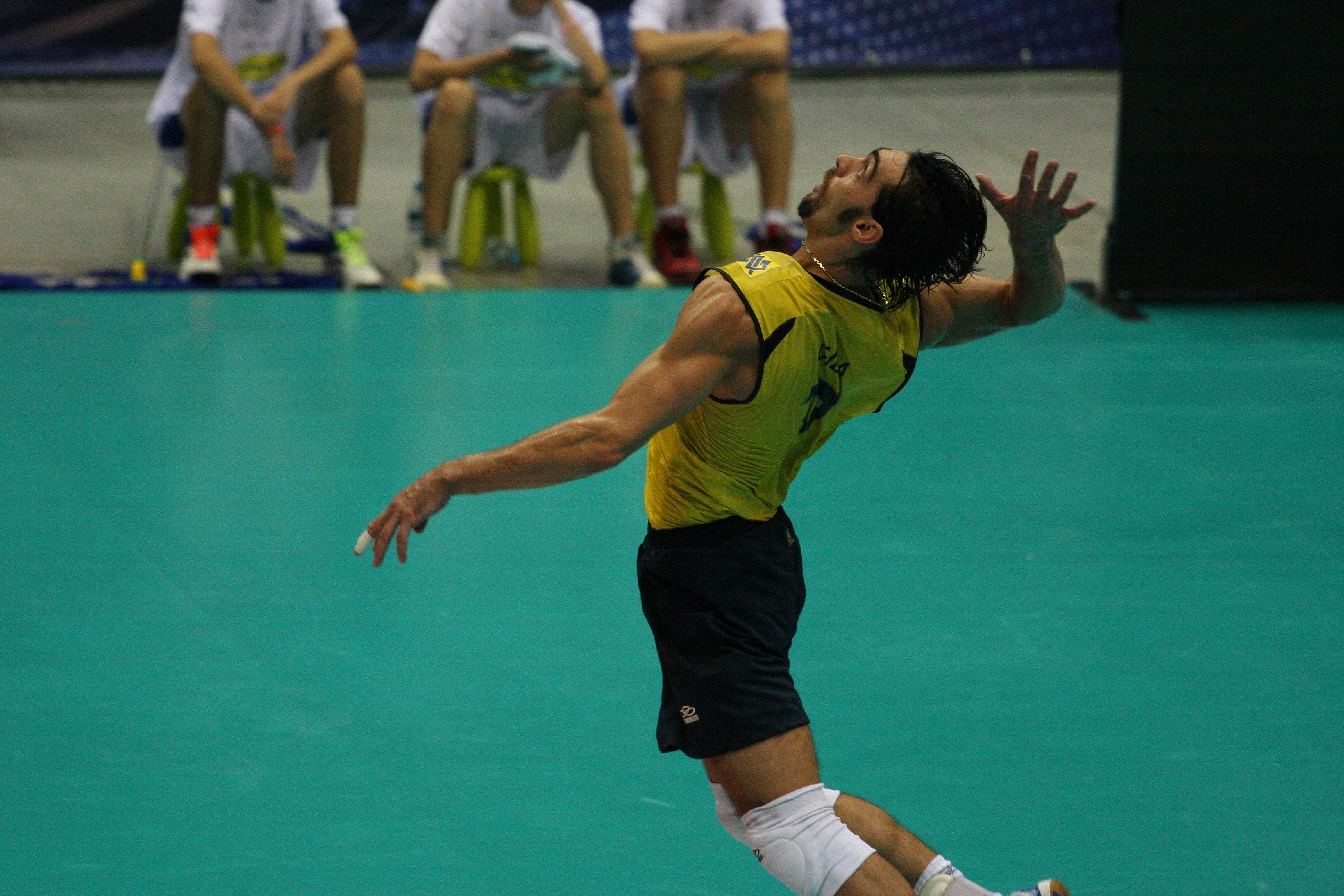 World League Finals, Gdańsk 2011 Brazil vs Argentina; Poland vs Russia